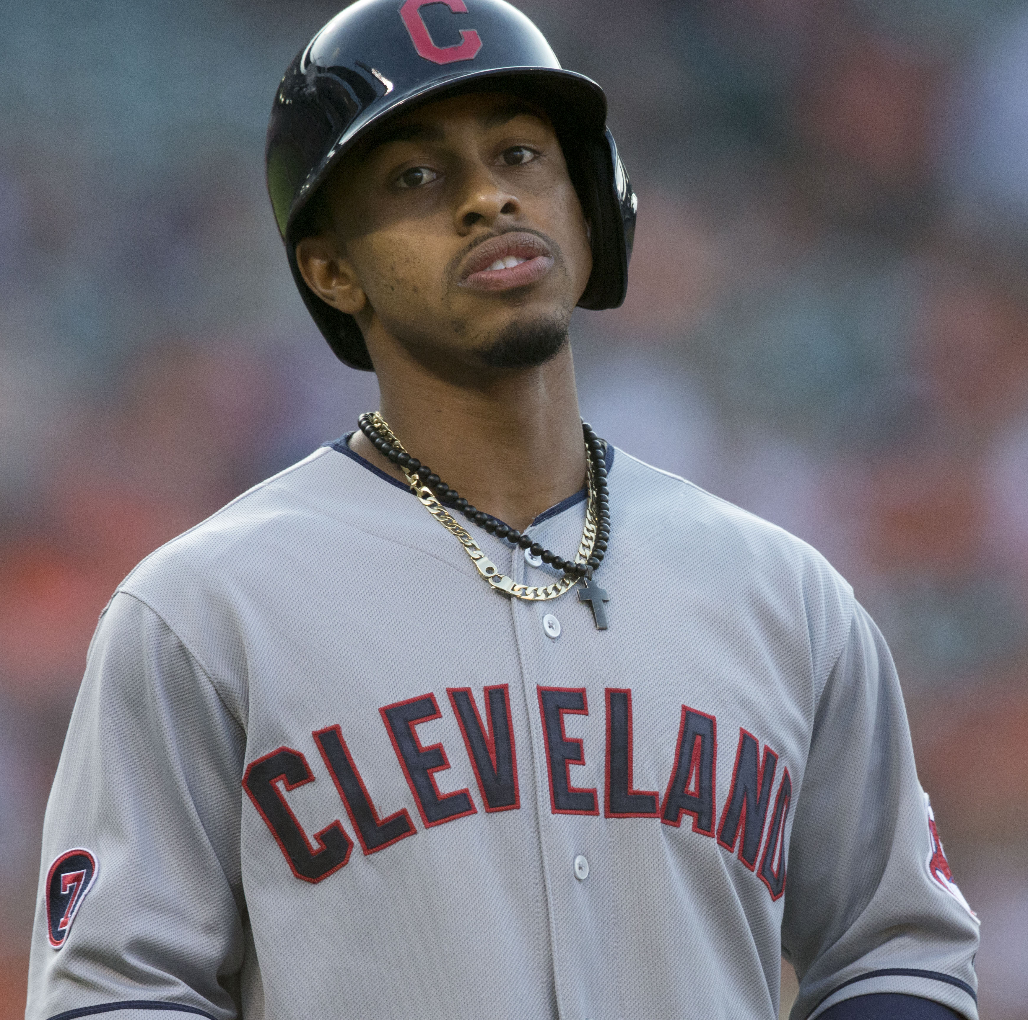 Indians at Orioles 6/26/15